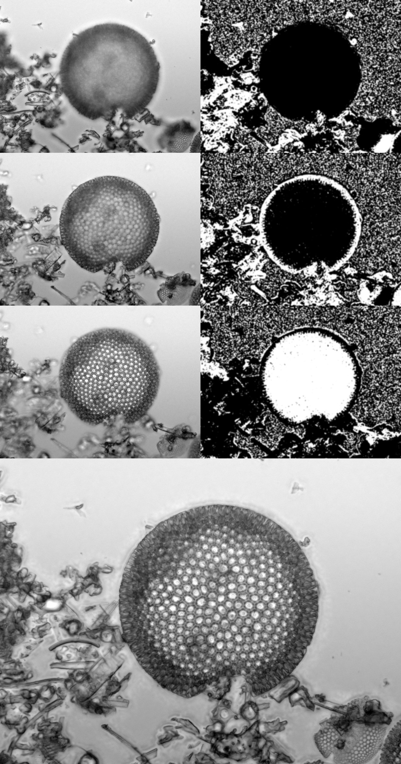 Focus stacking (for extended depth of field) in bright field light microscopy. This example is of a diatom microfossil in diatomaceous earth. Top left are the three source image slices at three focal depths. Top right are the contributions (black is no contribution, white is full contribution) of that focal slice to the final "focus stacked" image. Bottom is the resulting focus stacked image with an extended depth of field. Extended depth of field by focus stacking is a powerful tool for light microscopy as at high magnification the depth of field can be extremely shallow, down to around 1 μm.